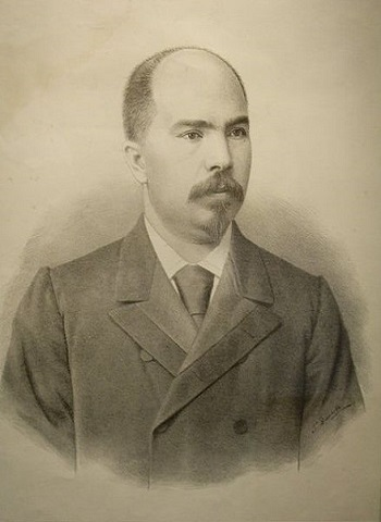 Portrait of Stefan Stambolov by Georgi Danchov Zografina